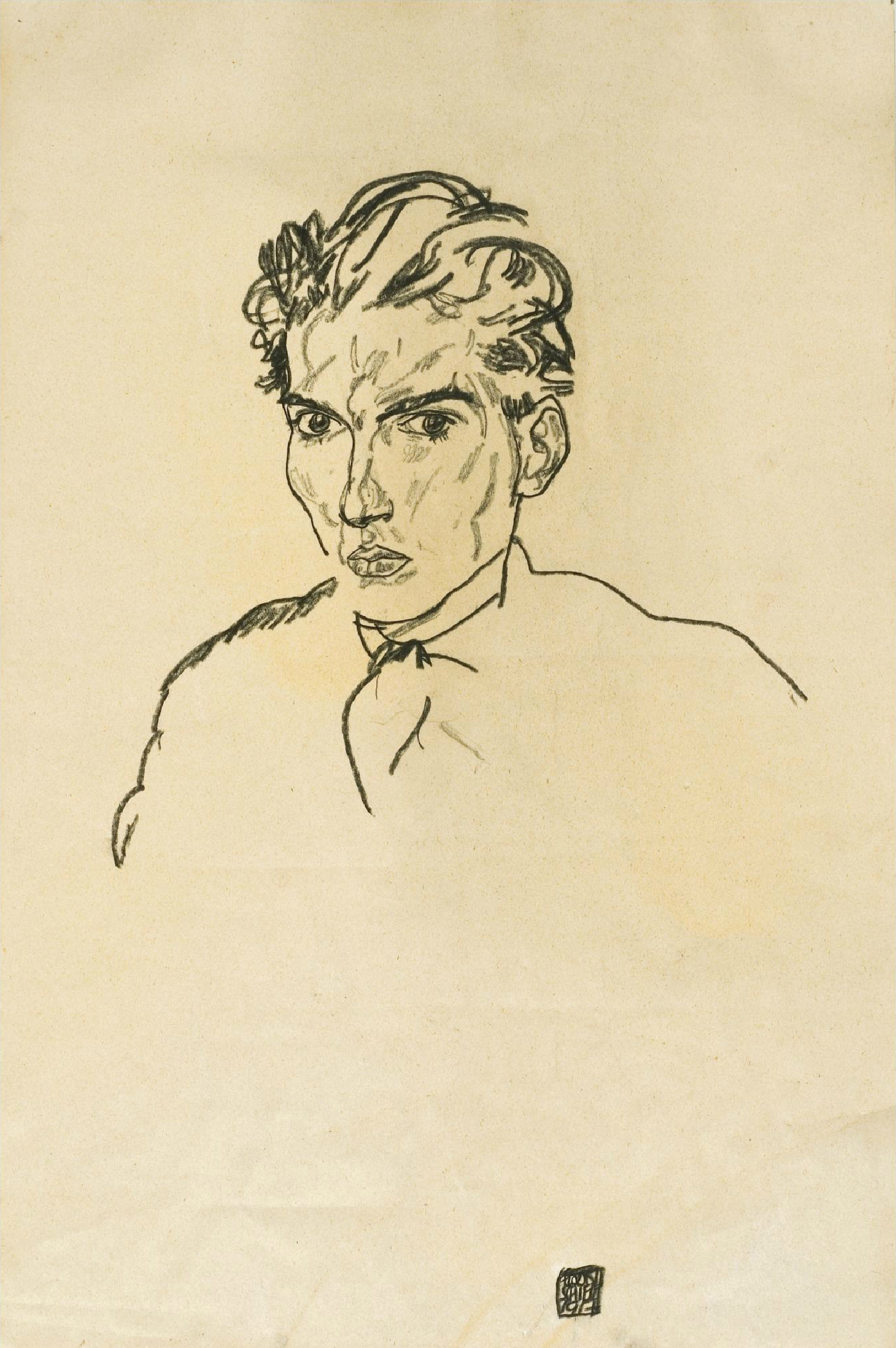 Hugo Sonnenschein (1889-1953) black crayon on paper 42.2 x 28 cm signed l.r.: Egon Schiele 1917